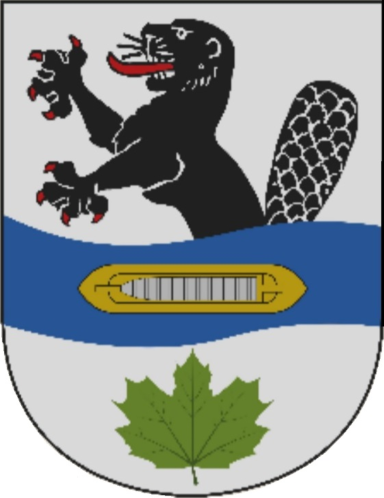 Coat of arms of Helfenberg, Upper Austria; valid from July 2019